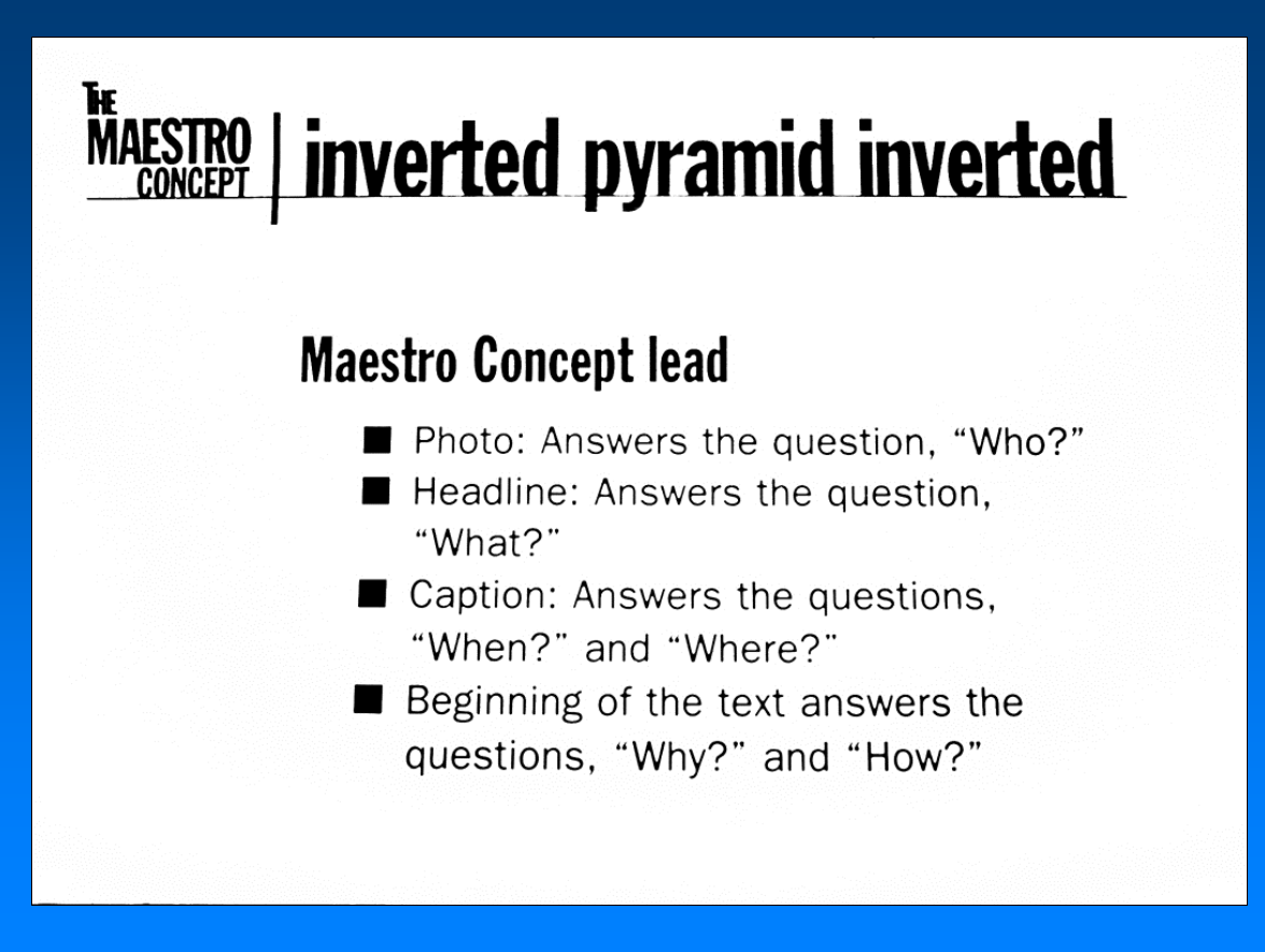 This picture is from a public PowerPoint for The Maestro Concept that details inverting the traditional journalism model of the inverted pyramid.